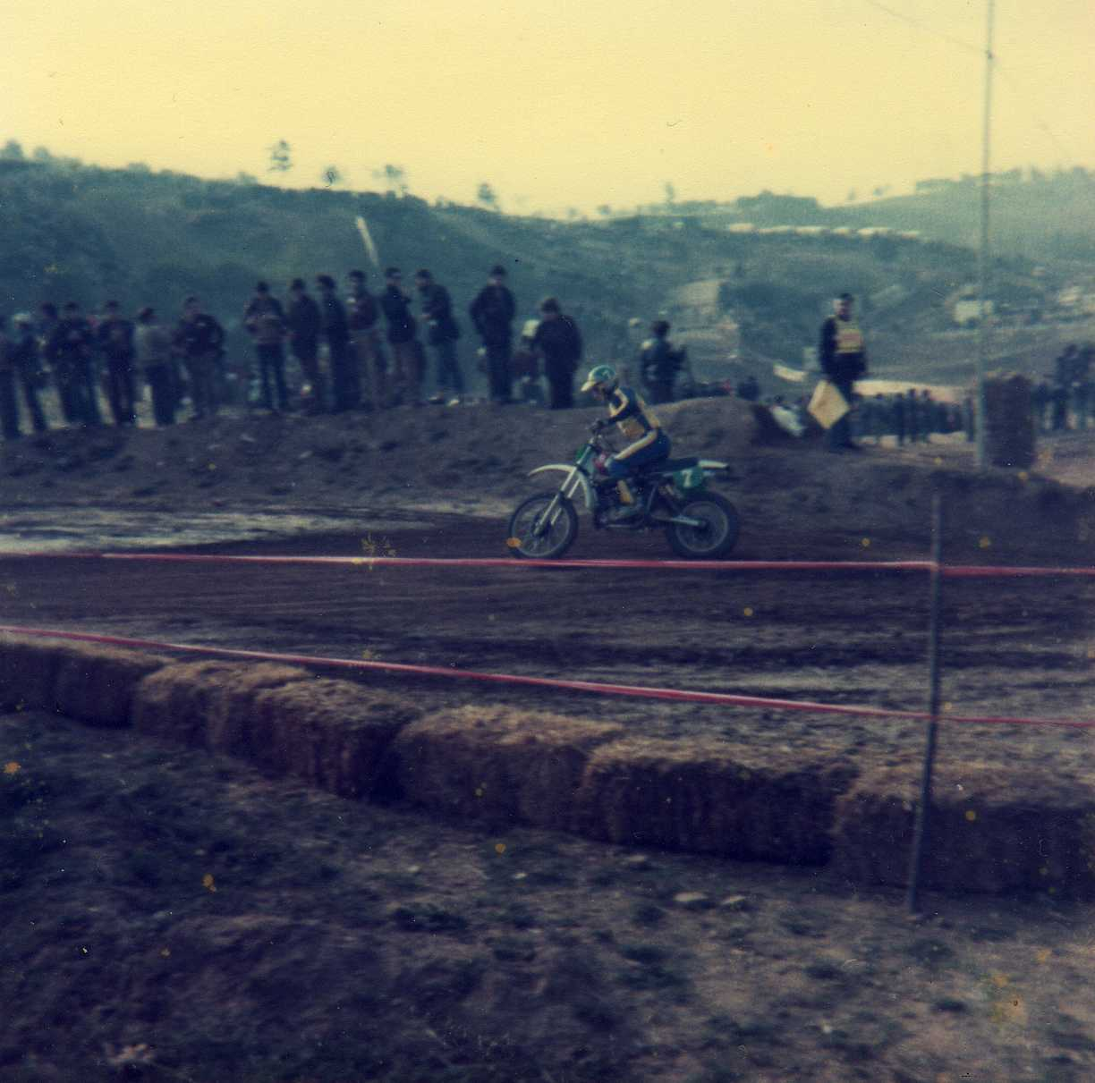 Håkan Carlqvist (Husqvarna) while practicing, before the races, at Circuit del Vallès, Sabadell-Terrassa (Catalonia), during the 1979 spanish MX GP 250cc.